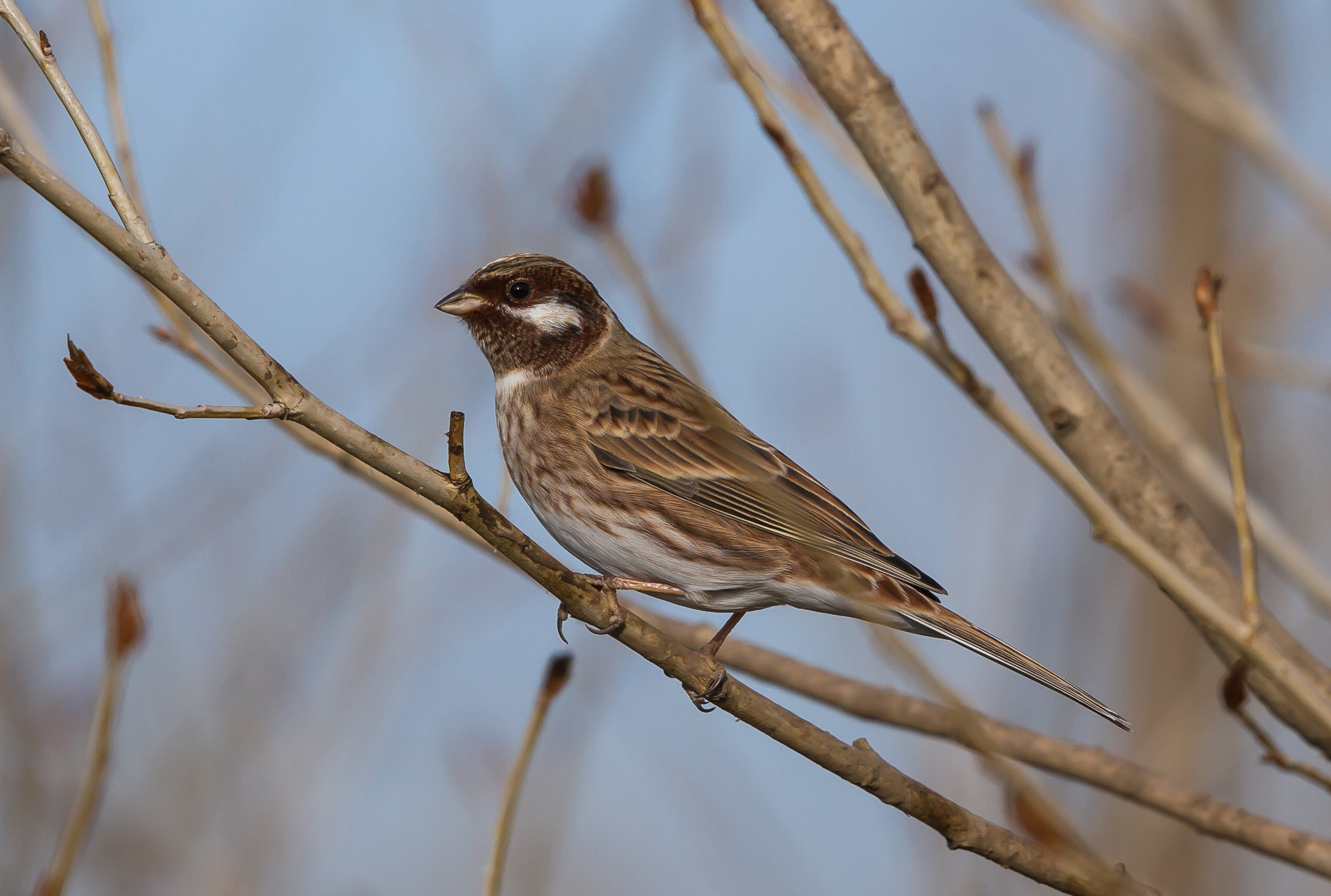 Pine Bunting Emberiza leucocephalos - Цагааншанаат хөмрөг, Ikh Dashir, Mongolia